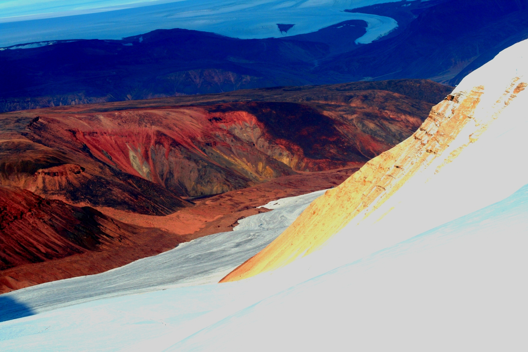 The Greenland Ice Cap. Photograped by Brocken Inaglory in September of 2005